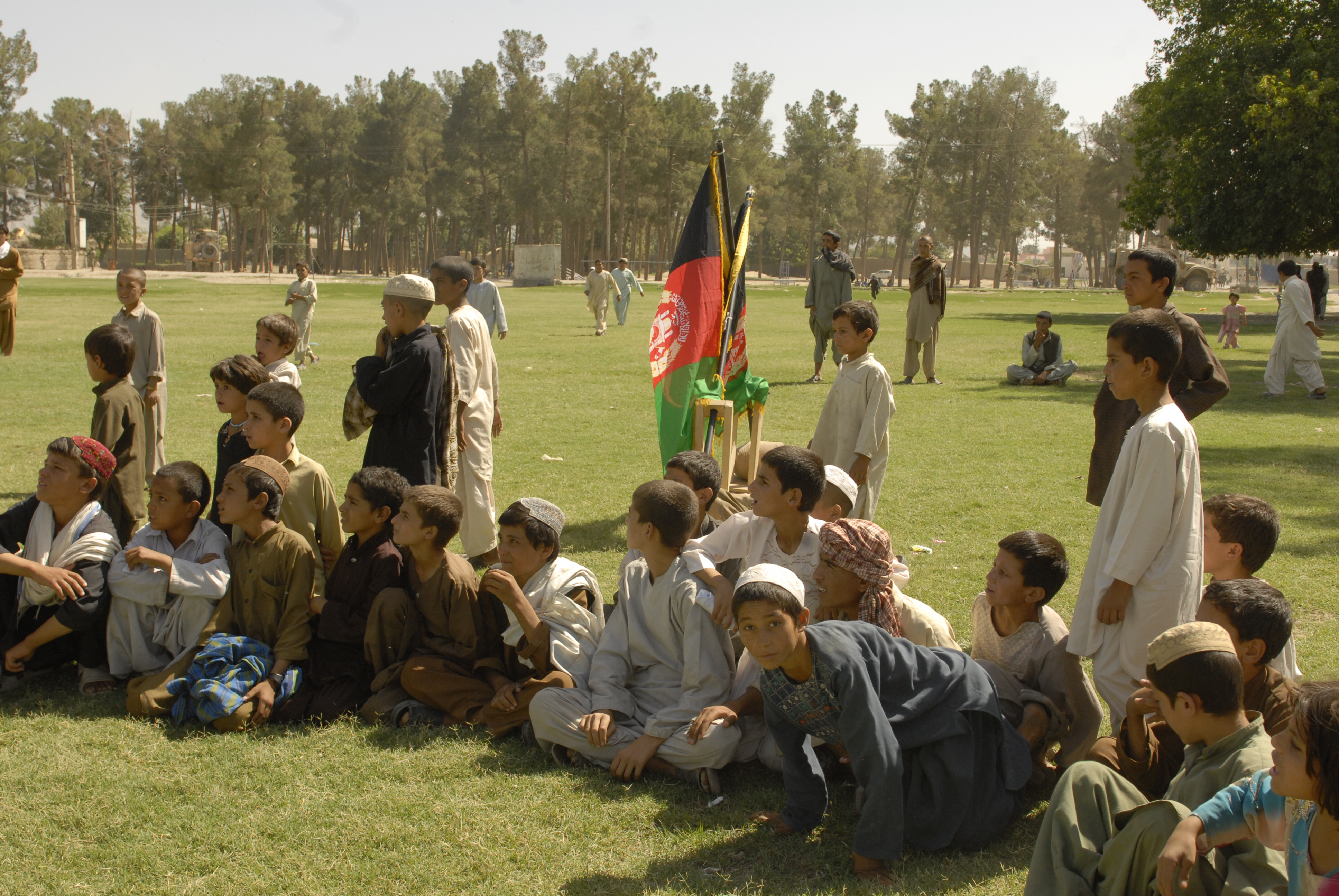 KANDAHAR, Afghanistan - A group of children from the ‘Old Corps’ area of Kandahar City watch a soccer game between two local teams June 8th. The game occurred after a ribbon cutting ceremony which signified the official opening of a new soccer field in sub district one of Kandahar City. The new field was one of many projects headed by 1st Brigade Combat Team, TF ‘Raider’, 4th Infantry Division and their Afghan National Security Forces partners in their joint-reconstruction efforts to improve quality of life, safety and security for residents of Kandahar City. (U.S. Army photo by Sgt. Breanne Pye, Public Affairs Office, 1BCT, 4th Inf. Div.) (110608-A-DE255-133)